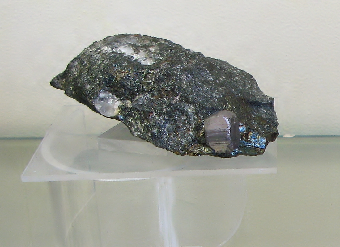 Cobaltite - Locality: Tunaberg, Sweden - Exposed in the Mineralogical Museum, Bonn, Germany